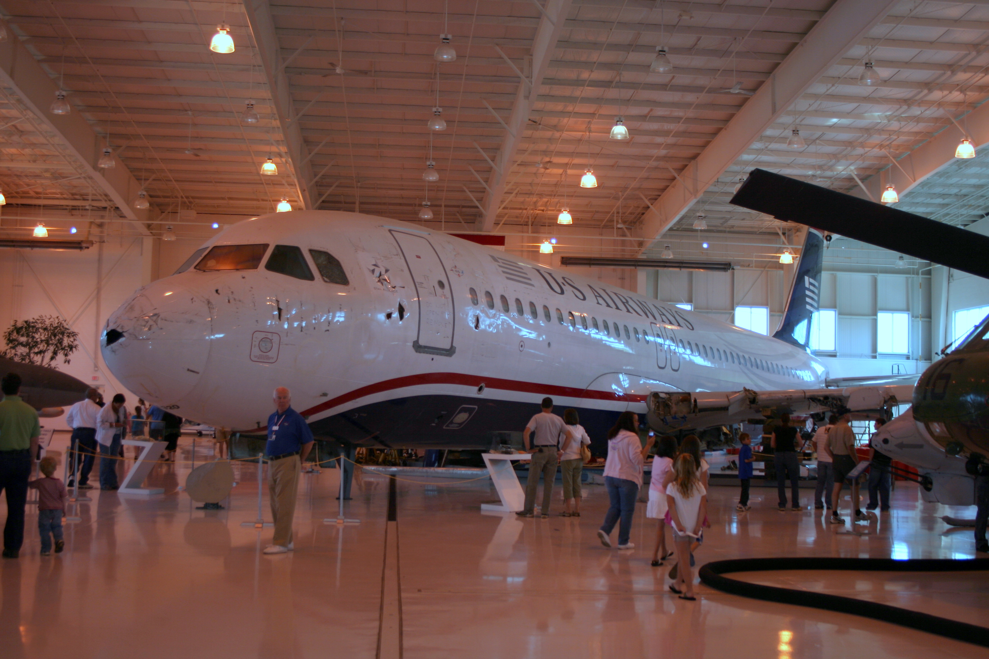 The Airbus A320 involved in N106US US Airways Flight 1549 on display at Carolinas Aviation Museum